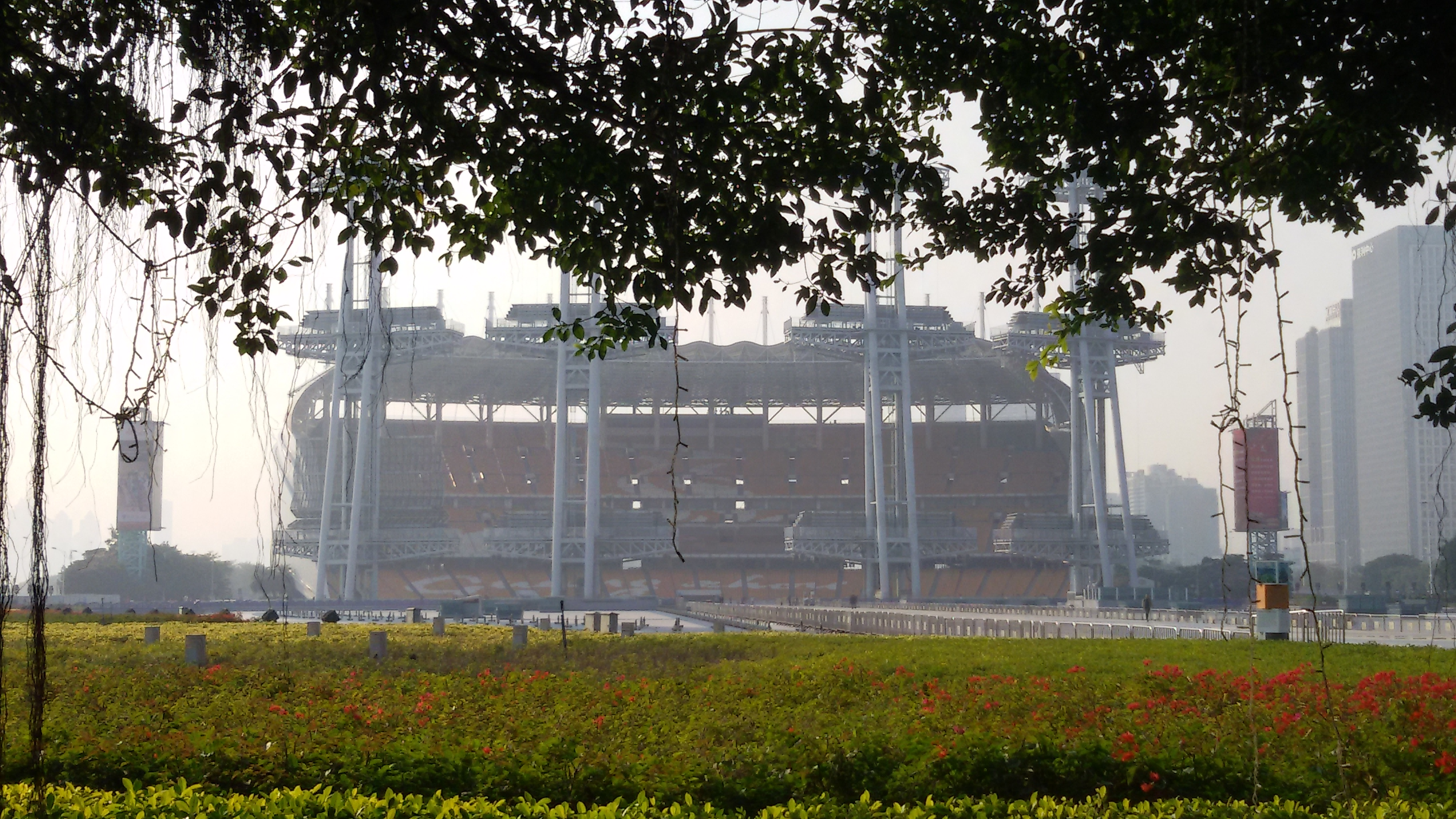 Haixinsha Asian Games Park